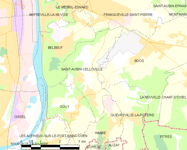 Map of French municipality Saint-Aubin-Celloville